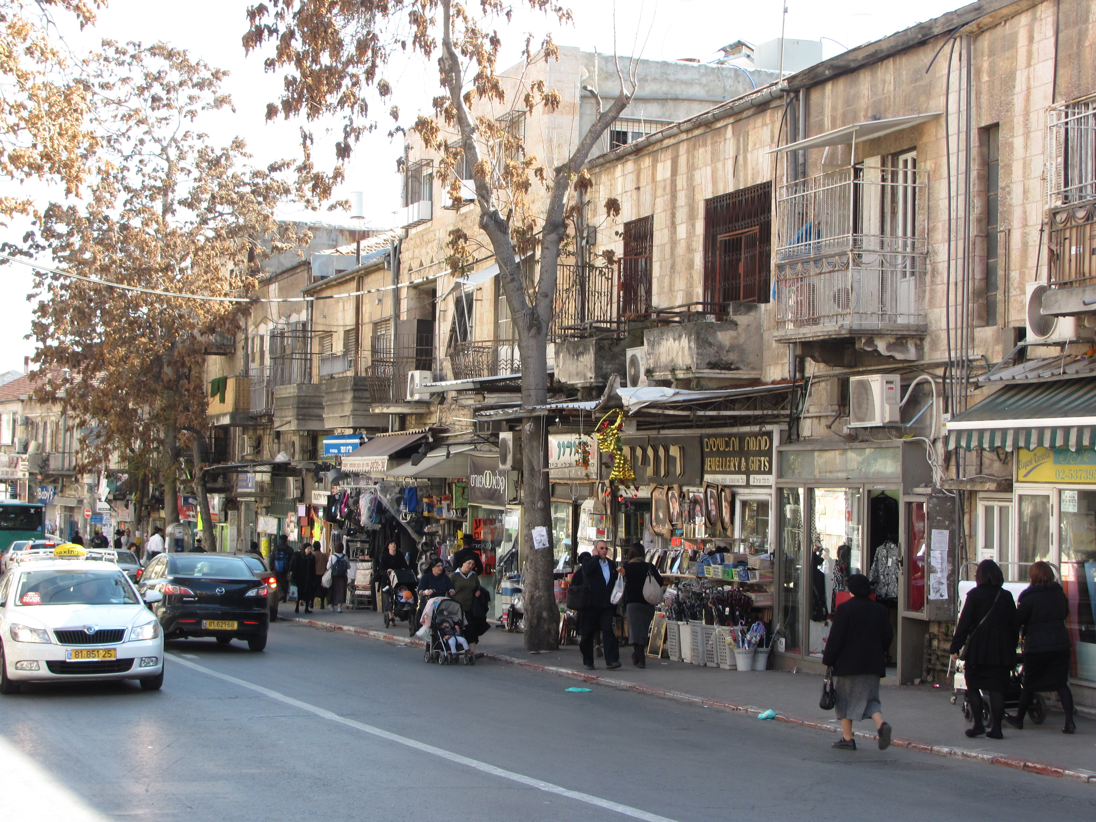 Morning shoppers stroll past stores on Malkhei Yisrael Street, Jerusalem.